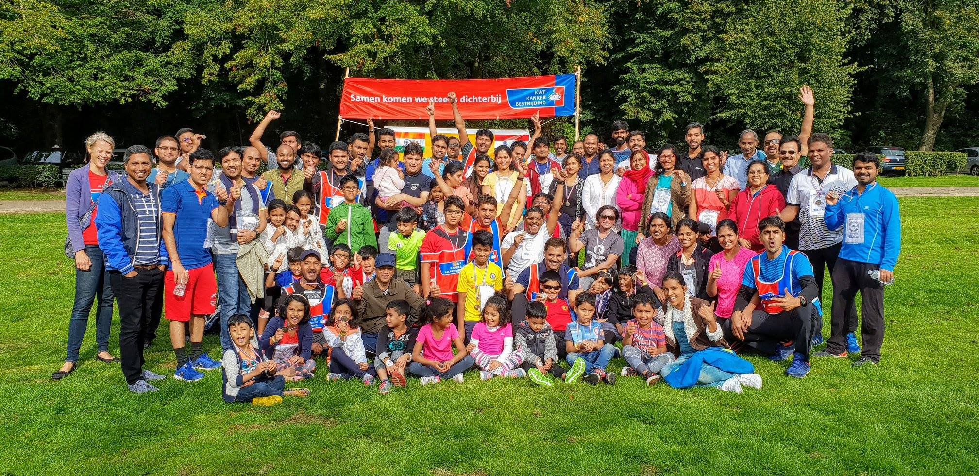 NLTC organized charity run event to support KWF organization in fighting against Cancer